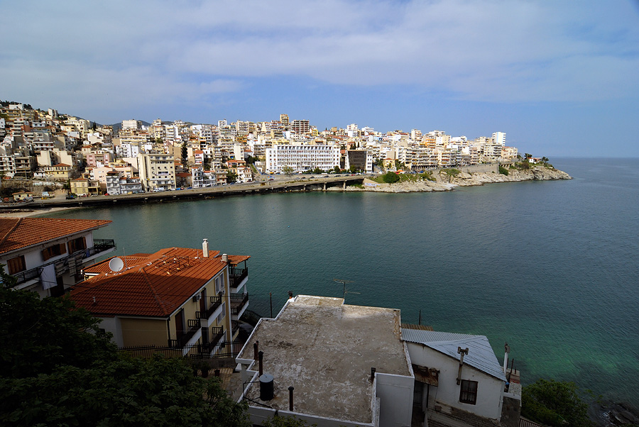 View of Kavala